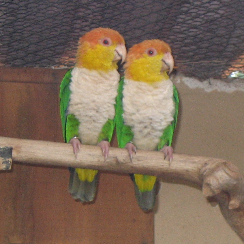 White-bellied Caiques (also known as White Bellied Parrots) at the Bird Park in Foz do Iguaçu, Brazil. This subspecies is known as the Green-thighed Caique.